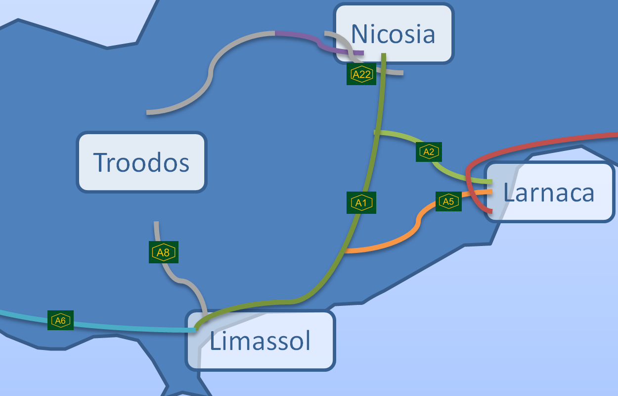 A1 Motorway Cyprus Map created by me, TomasNY| 10:54, 17 August 2007 (UTC)